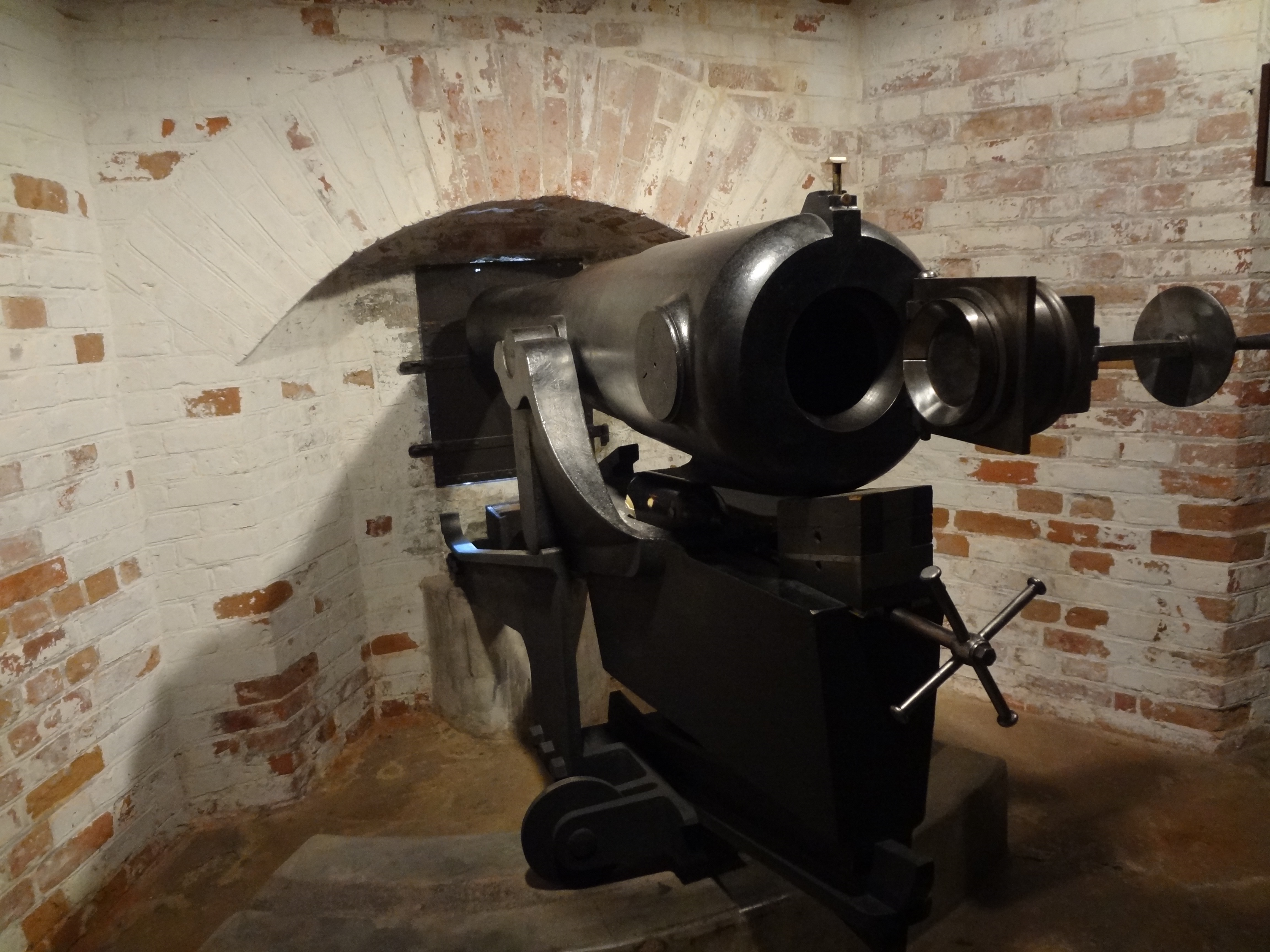 Breech-loading canon in Karlsborg, Sweden.